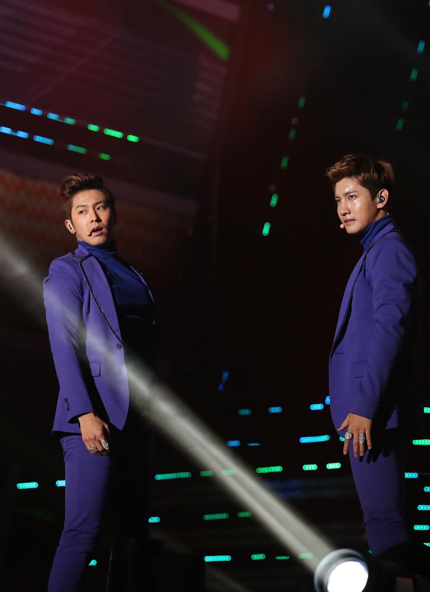 2012 K-POP World Festival Special Performance by TVXQ Changwon, Korea 2012.10.28. Ministry of Culture, Sports and Tourism Korean Culture and Information Service Jeon Han 2012 K-POP 월드 페스티벌 동방신기 東方神起 축하공연 경상남도 창원시 문화체육관광부 해외문화홍보원 코리아넷 전한